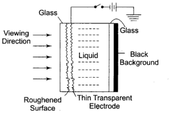 illustration of liquid vapor display